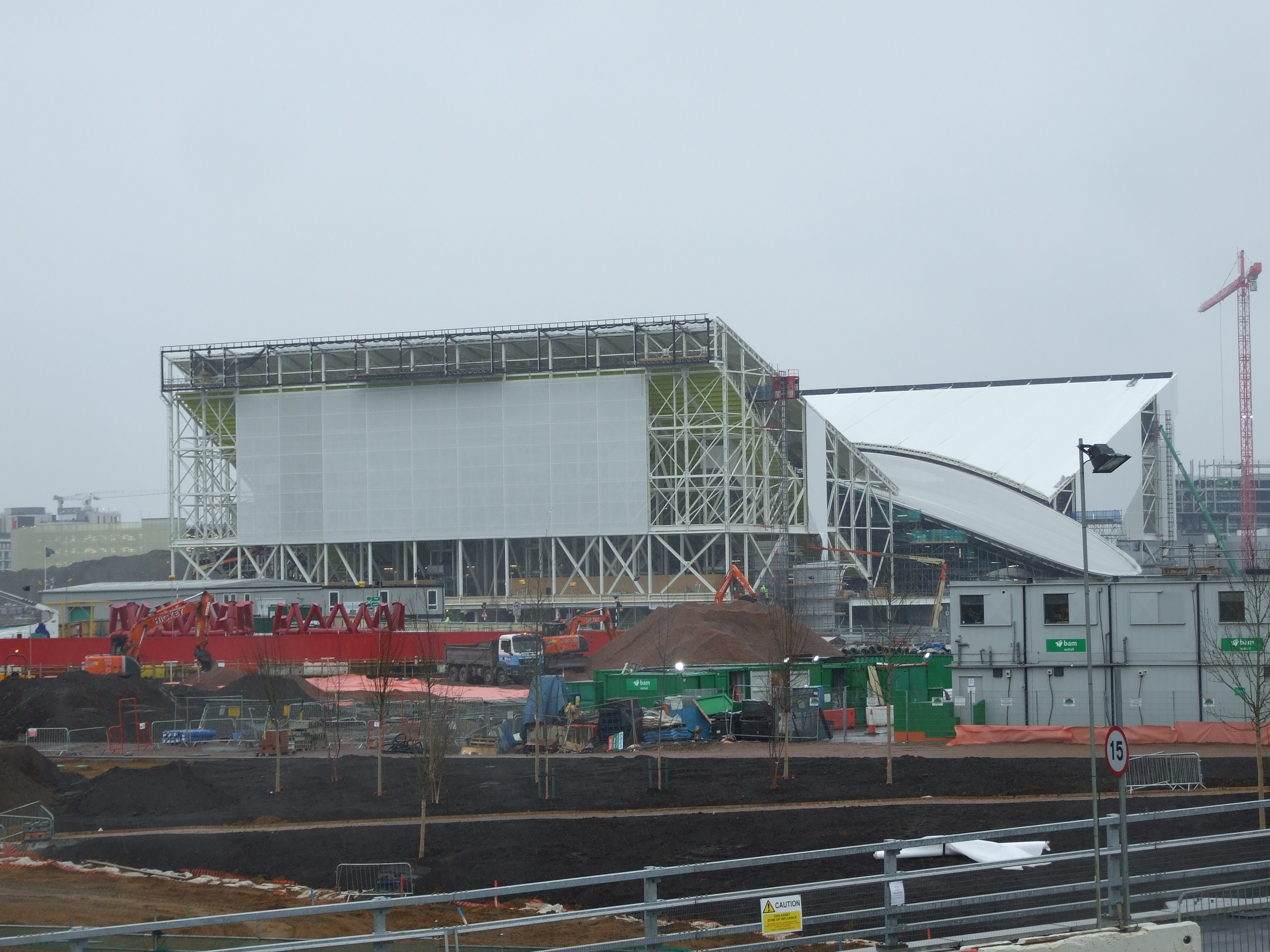 Construction of Aquatics Centre — March 2011.